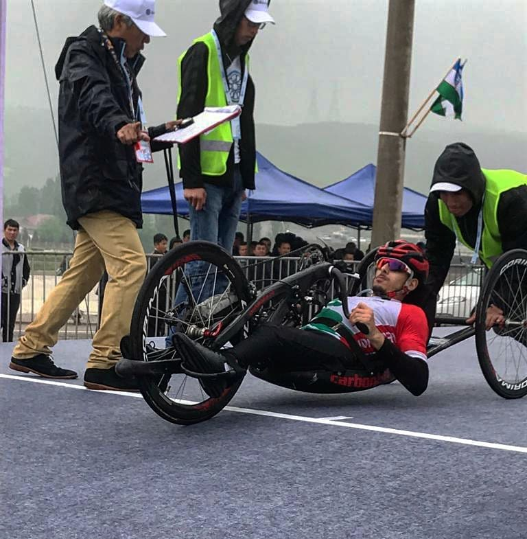 Hassan Dia at the 2019 Asian Road Cycling Championships start line in Tashkent, Uzbekistan.